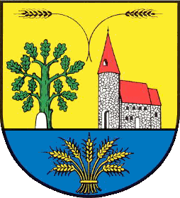 Coat of arms of the municipality Ratekau in Schleswig-Holstein, Germany.